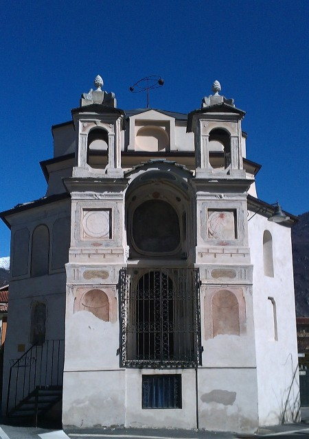 Cappella sconsacrata di San Giuseppe ora planetario a Chiusa San Michele. Al piano inferiore resti archeologici ipotizzati fortificazione altomedievale